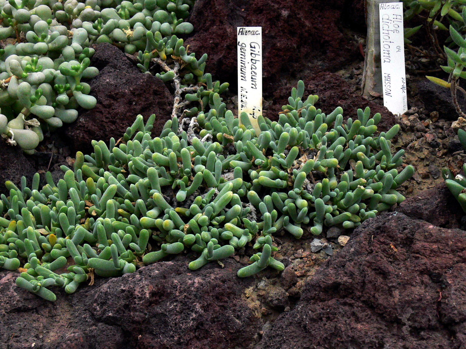 Gibbaeum geminum